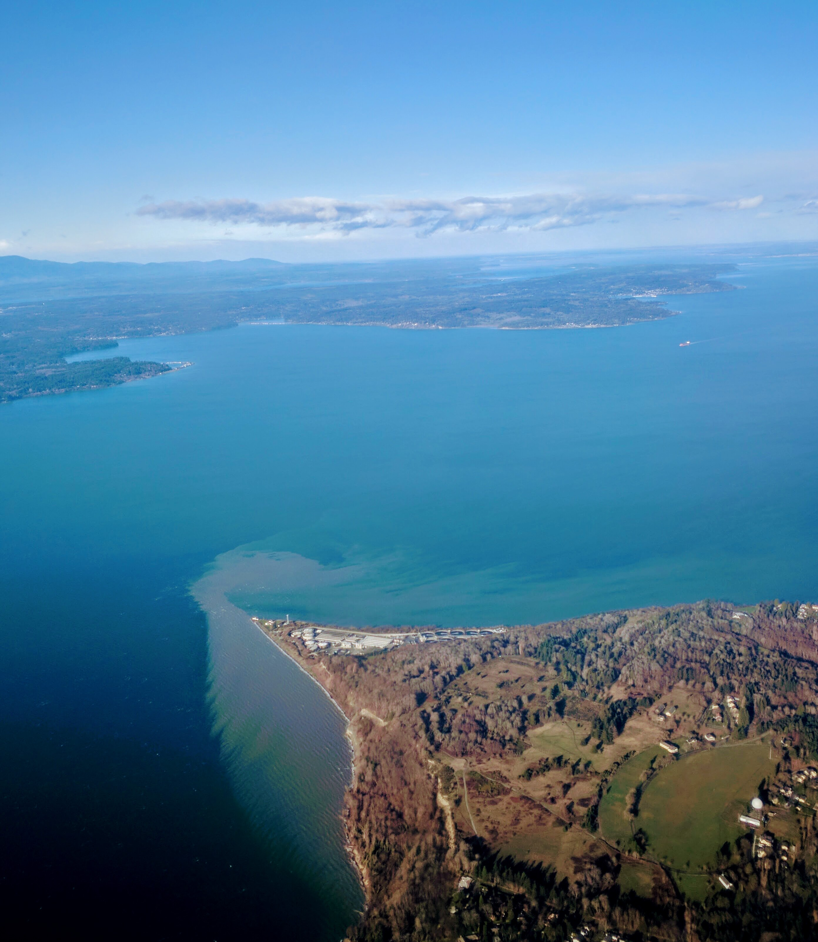 West Point, Seattle, Washington, with West Point Lighthouse